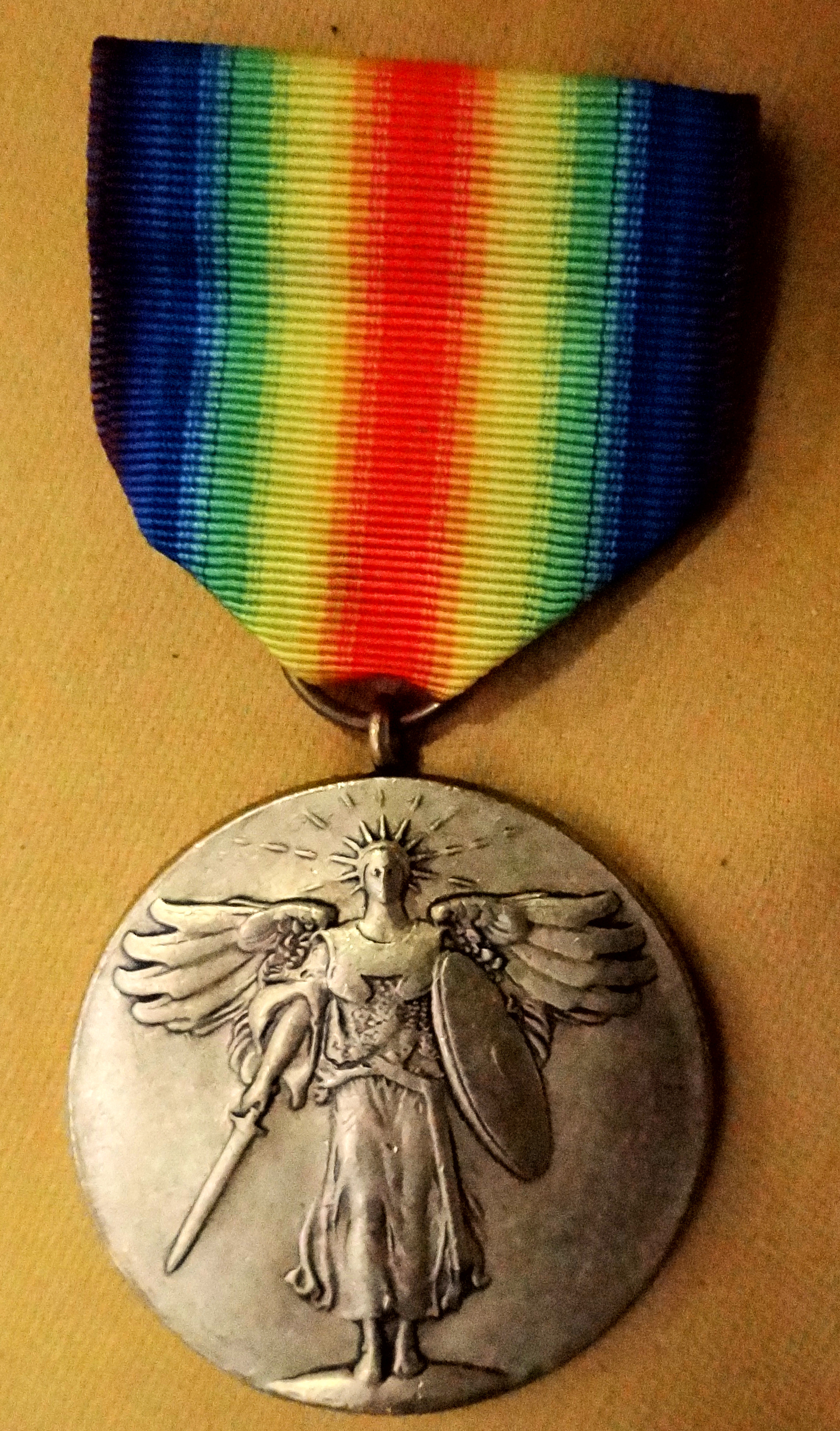 A US Victory Medal on display at the local historians' museum on the hill above the Heritage Centre in Cobh, Ireland. This type of medal was awarded to members of the US Armed Forces between 6 April 1917 and 11 November 1918.